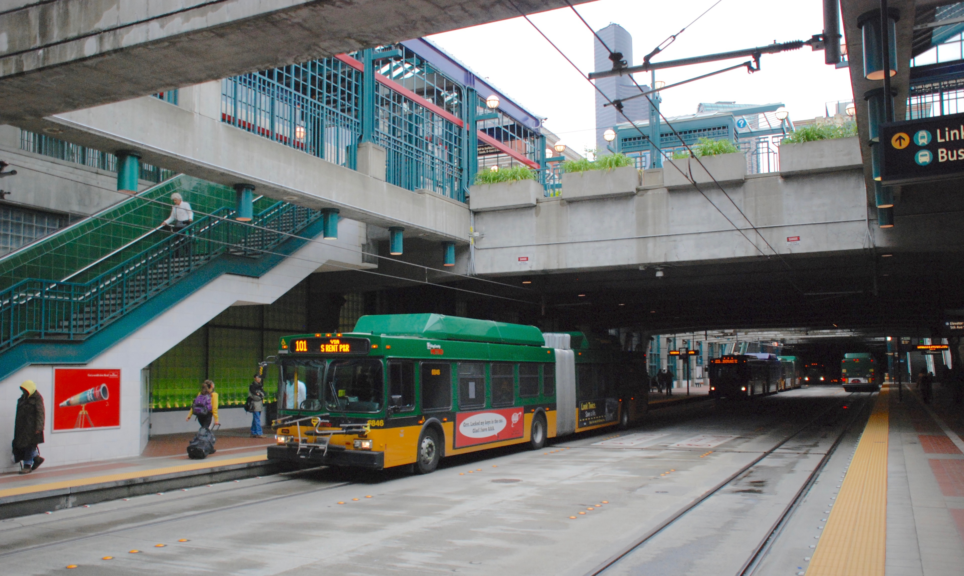 The Downtown Seattle Transit Tunnel's International District/Chinatown station with several King County Metro buses. This view is from the northbound platform, looking north. The nearest bus is No. 6846, a 2008 New Flyer DE60LF hybrid bus. This station opened in 1990, for use by dual-mode buses (diesel/trolley) that operated as trolleybuses in the tunnel. Several years later it was modified for use additionally by Sound Transit Link light rail, and Link service began in 2009.